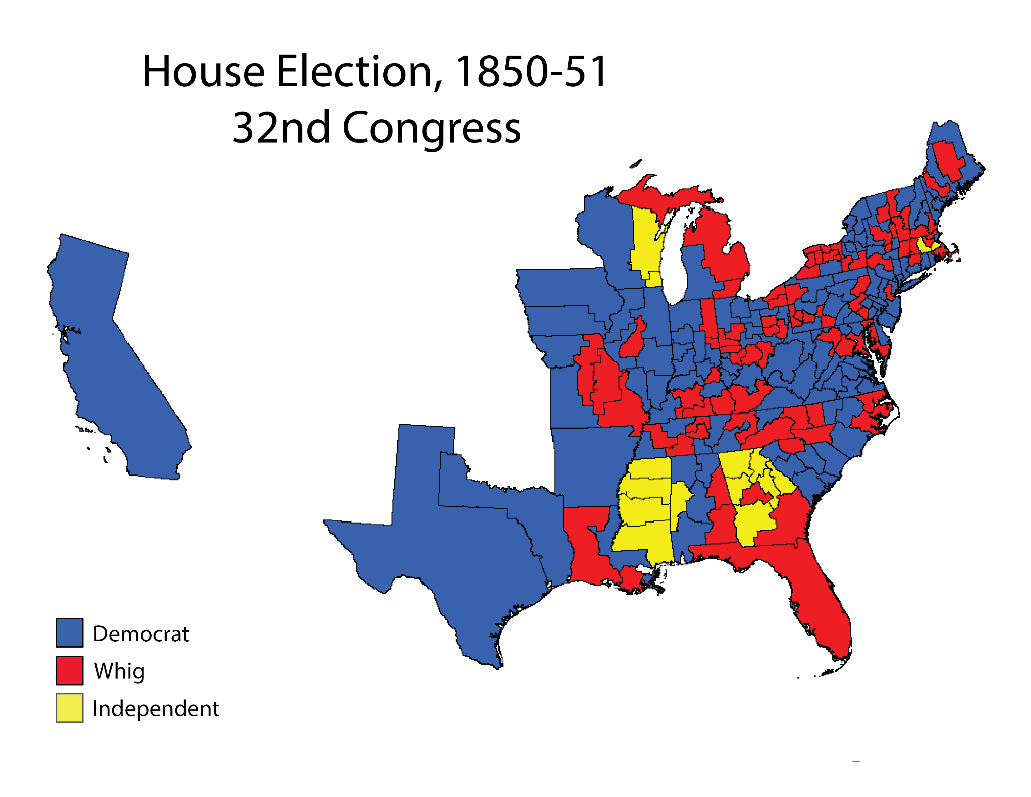 Map of U.S. House elections results from 1850-51 elections for 32nd Congress